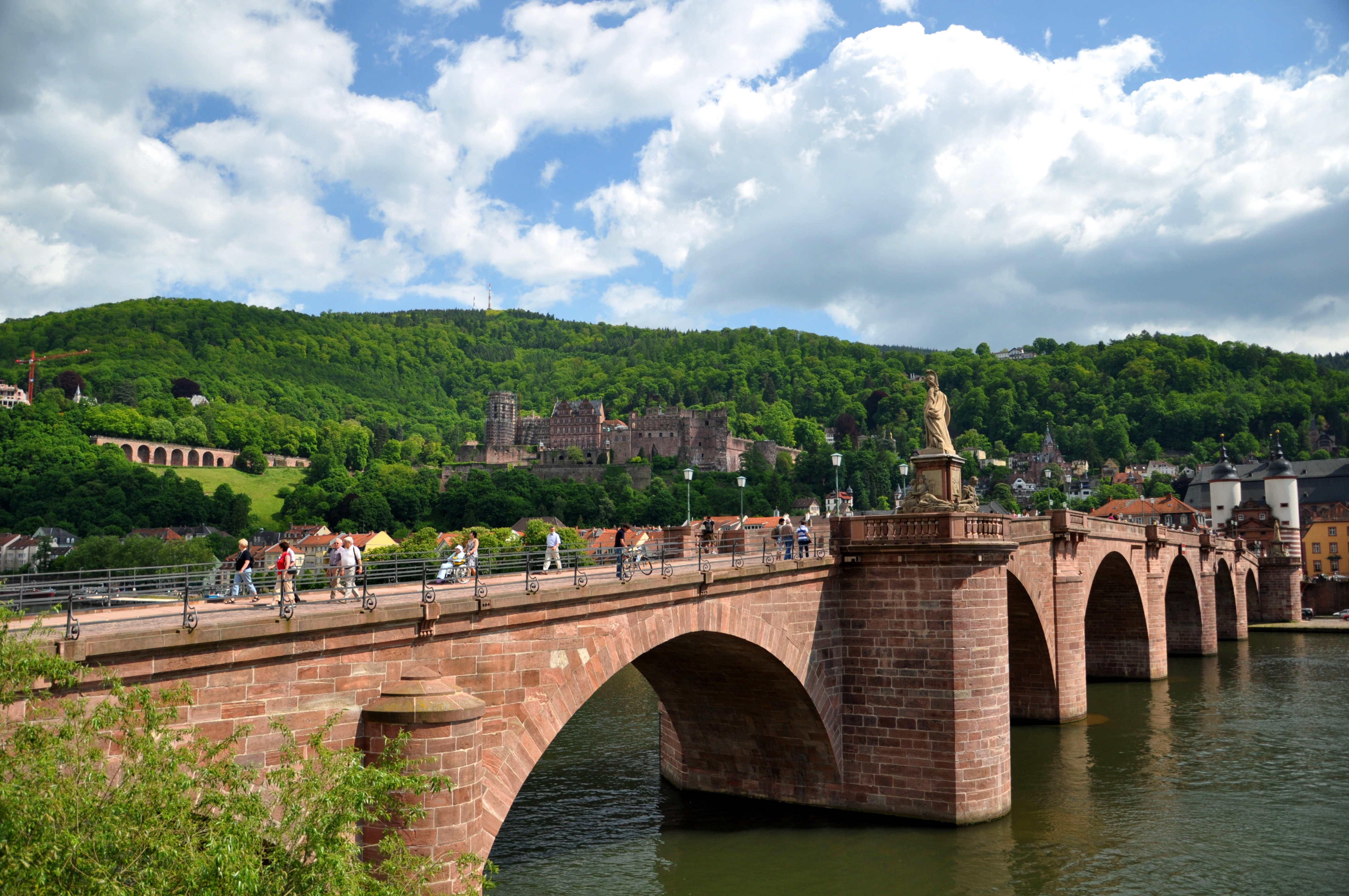 Heidelberg Castle with Old Bridge in foreground